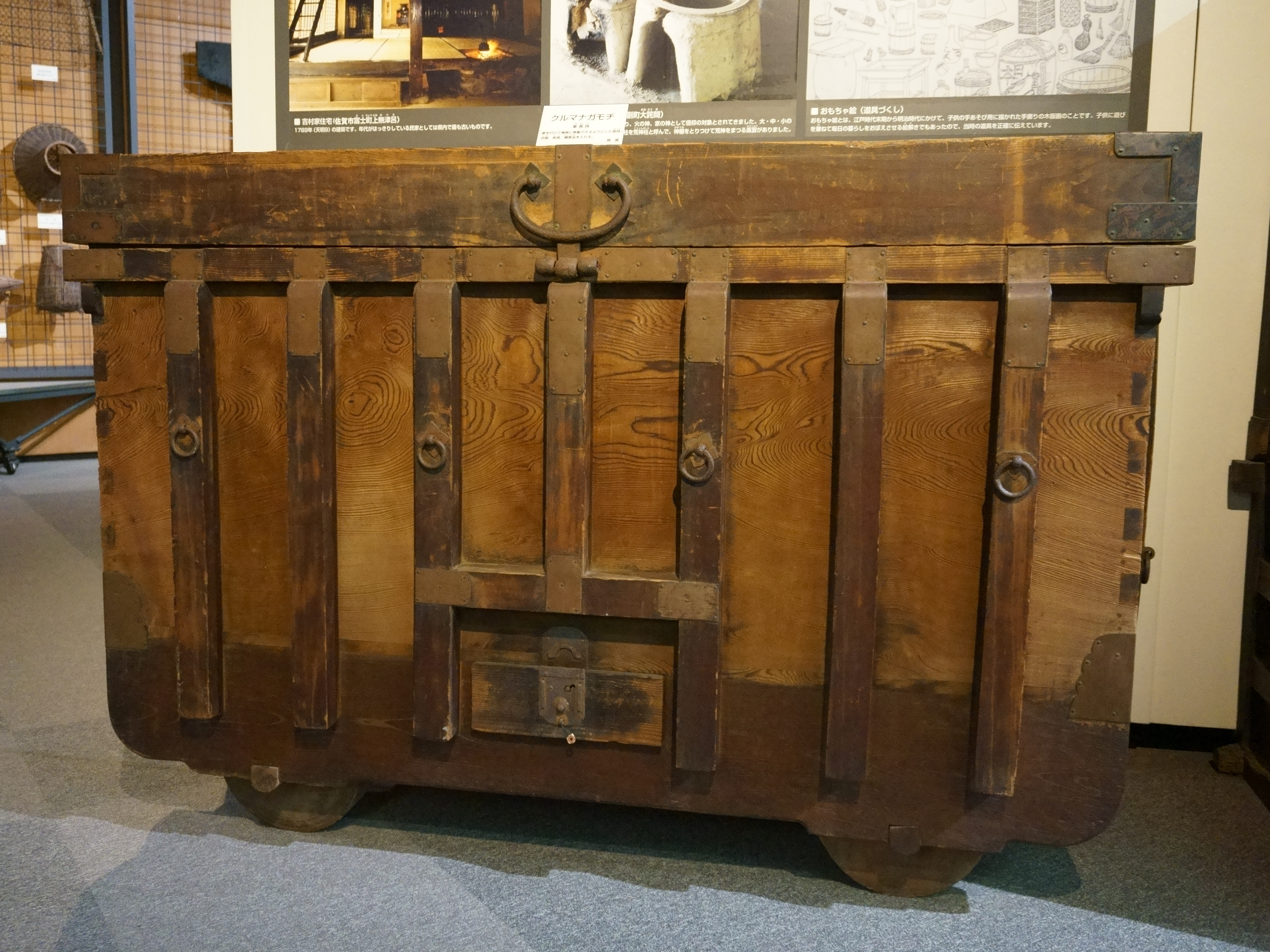 "Kuruma-Nagamochi", a traditional wheeled trunk of Japan that documented category of old Tansu. It displays at Saga Prefectural Museum.